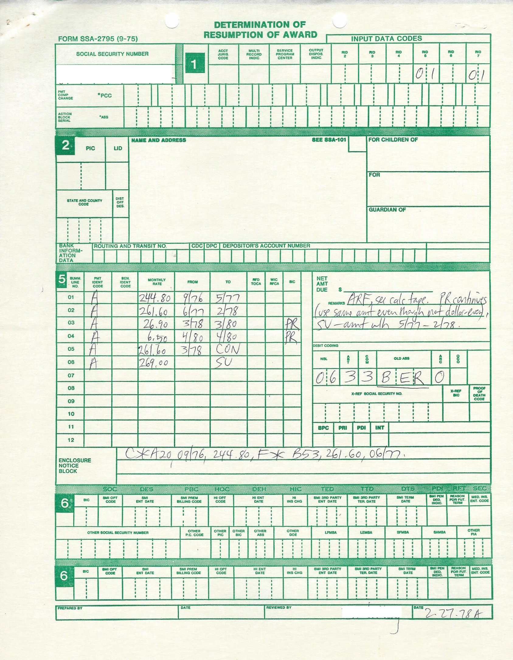 A filled-out Form SSA-2795 from 1978. Titled the Determination of Resumption of Award, it was the central internal form used by Benefit Authorizers in the U.S. Social Security Administration to process changes of entitlement to Social Security benefits.